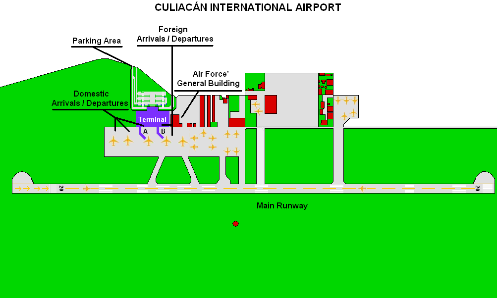 Map of Culiacan Federal International Airport with the runway and the Air Force' Building.